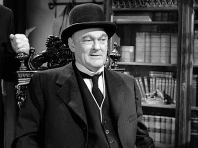 It's a Wonderful Life (film) 1946 Frank Capra, director. Lionel Barrymore Liberty Films/RKO